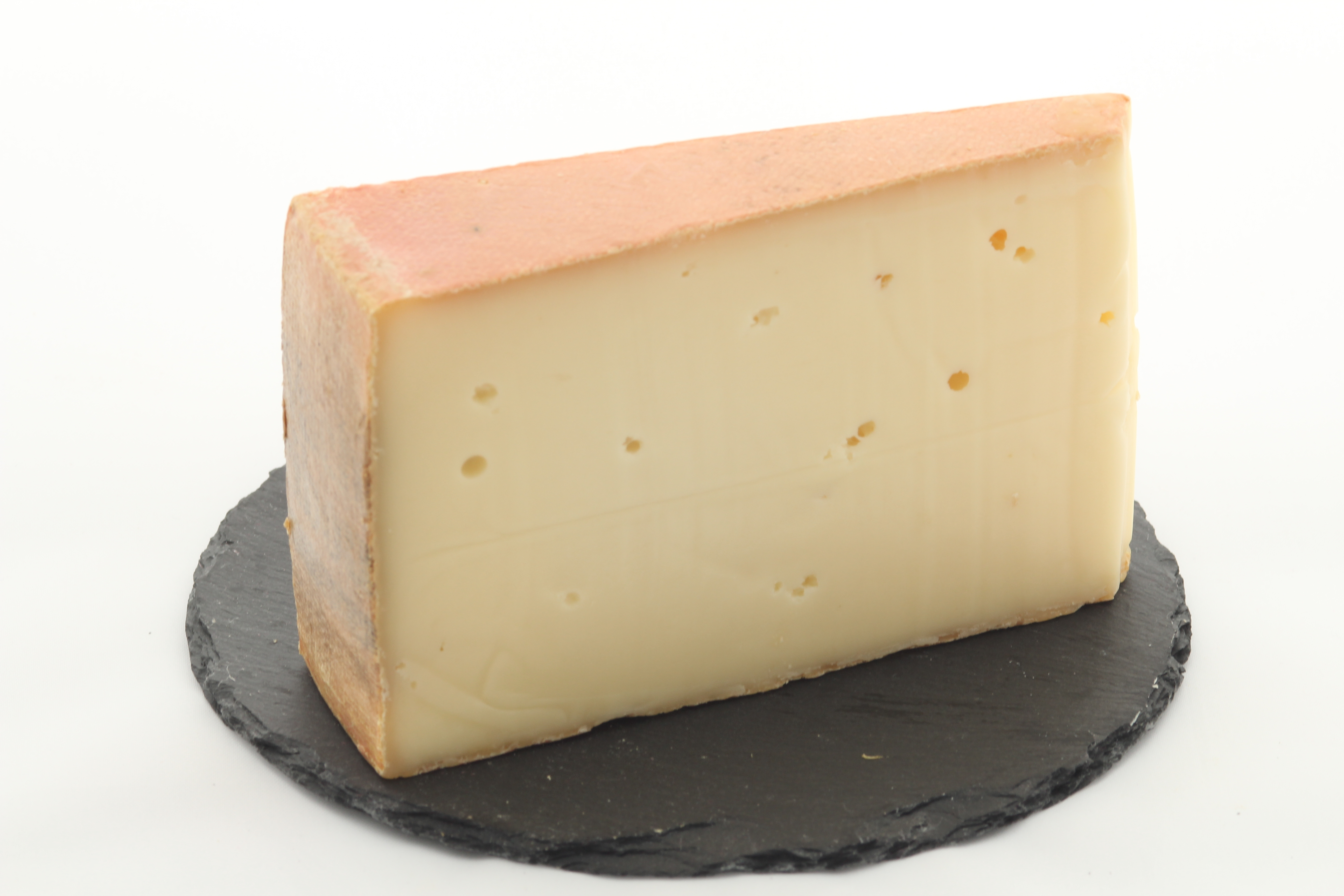 Vacherin Fribourgeois mi-salé - Swiss semi-hard cheese, from thermised cow's milk.